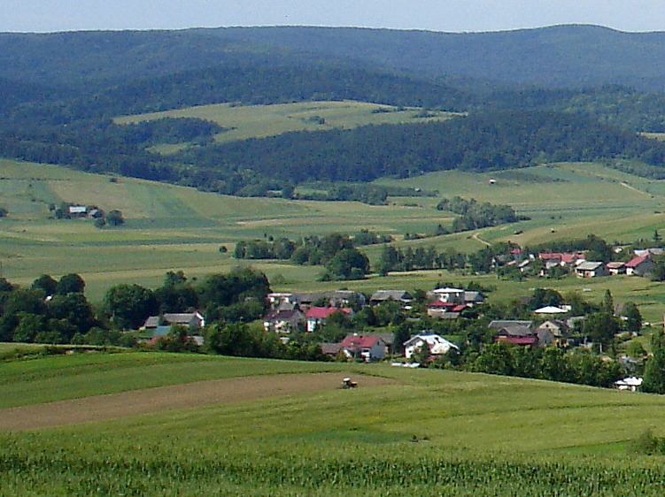 Nagórzany